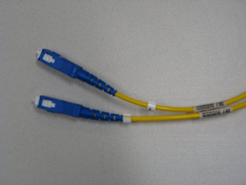 SC fibre optic patch lead